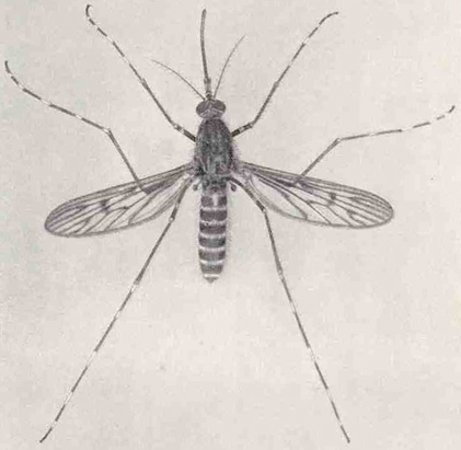 B/W-Photography of a female Culiseta annulata mosquito (syn. Theobaldia annulata).